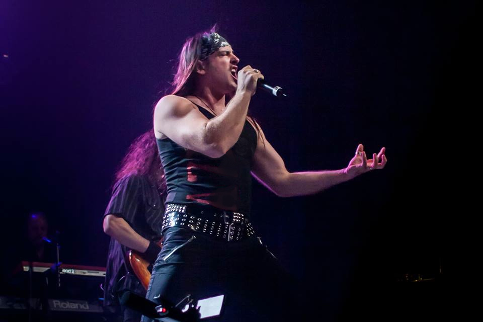 Vocalist Lance King of progressive rock band Krucible playing 2007 ProgPowerUSA festival on Oct. 4, 2007